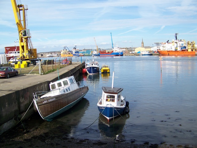 Small pier, Ferryden Low tide on the Esk estuary leaving one of the small craft touching the bottom. Most of the ships on the other side of the river are in the next square.